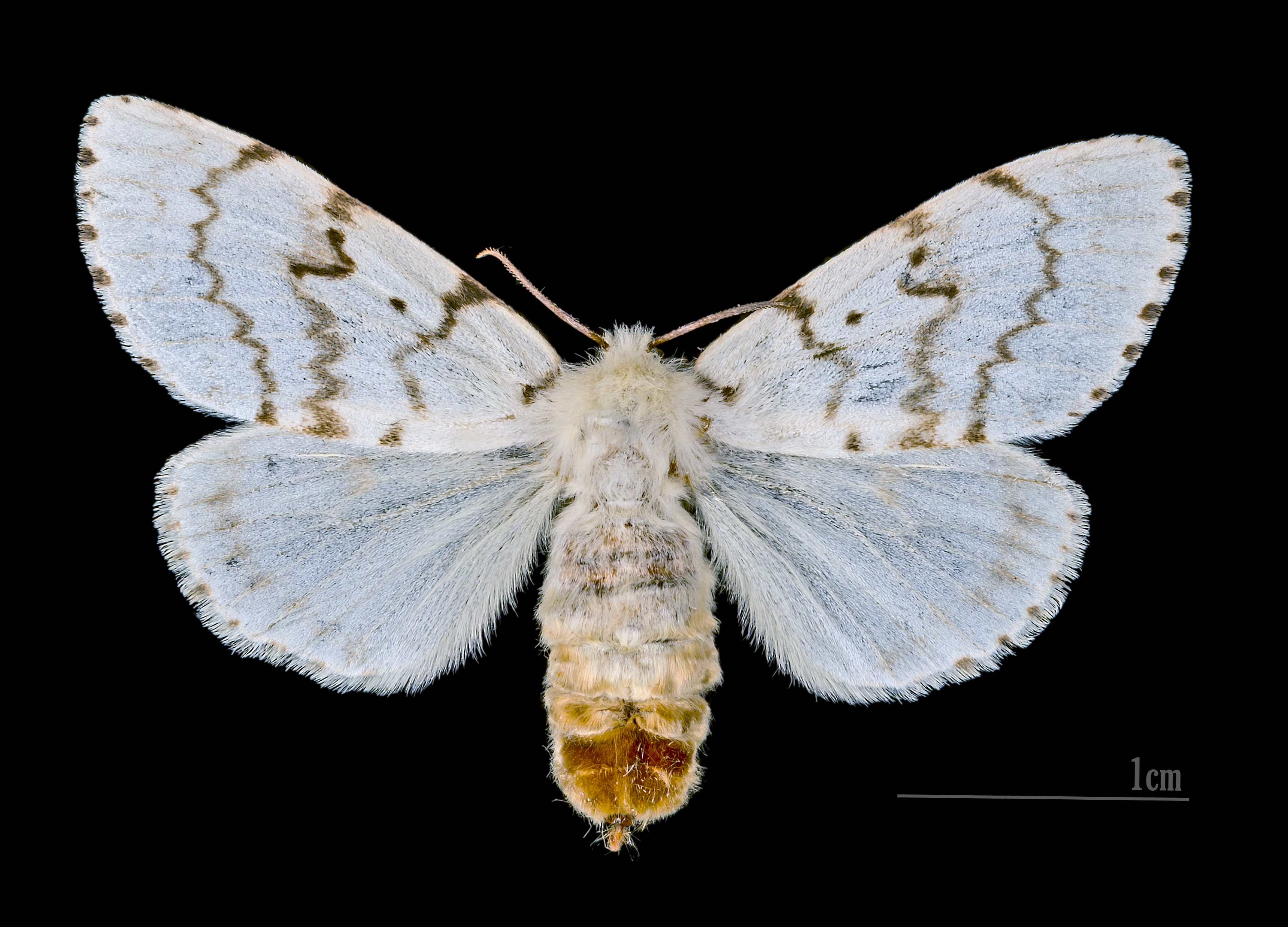 Gypsy Moth. Dorsal side